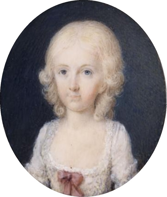 Maria Theresa of Naples and Sicily (1772-1807)